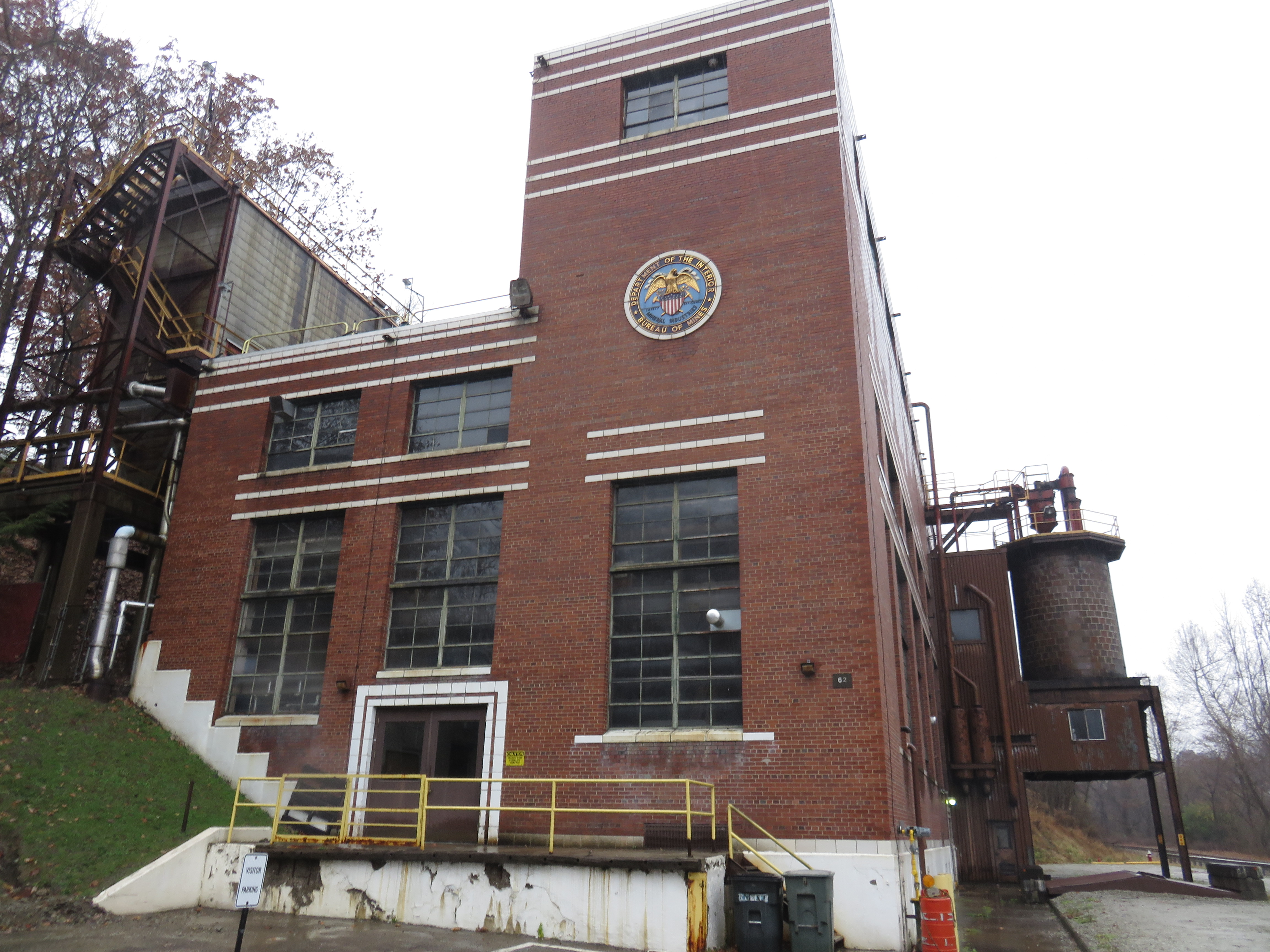 Building near the entrance of Bruceton Research Center, showing a U.S. Bureau of Mines seal